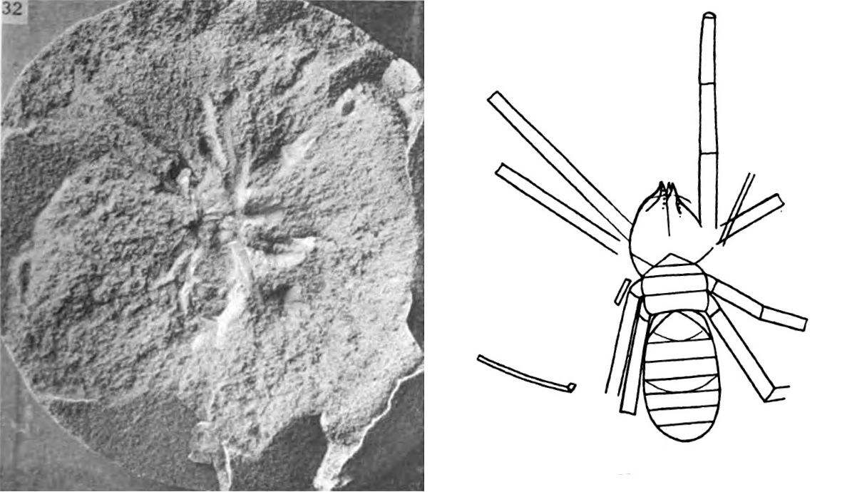 A monograph of the terrestrial Palaeozoic Arachnida of North America